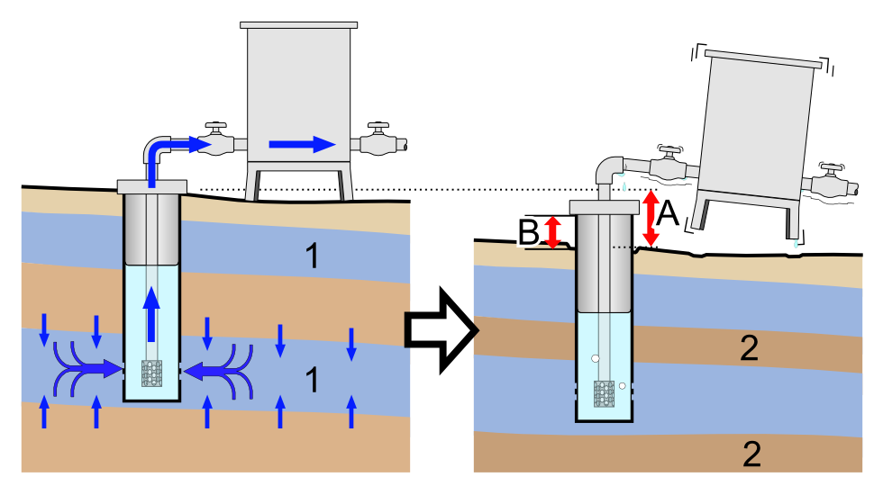 A:Fluctuation hight(Down) B:Floating up hight 1. Aquifer 2. Aquitard